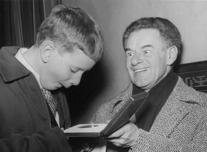 The 1953 Nobel Peace Prize. Fritz Lipmann shows his diploma for his son Stephen